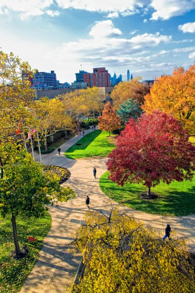 Photography of Rutgers Camden Campus with Philadelphia skyline in background.